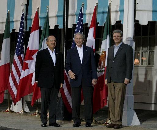 President George W. Bush (center) joins Mexico’s President Felipe Calderon (left) and Canadian Prime Minister Stephen Harper (right) as they pose for photographers outside the Commander’s Palace restaurant Monday evening, April 21, 2008, before attending the North American Leaders’ Summit dinner in New Orleans. White House photo by Joyce N. Boghosian